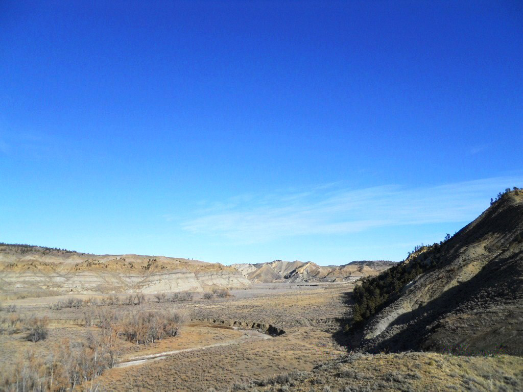 This is a view up Cow Creek, looking to the Northwest. A remnant of the old road, which is on a portion of the old Cow Creek trail can be seen in the lower right foreground. Cow Creek meanders from one precipitous side to the other steep side of this valley/canyon, which caused the Cow Island Trail to cross the creek some 31 times as it ascents to reach the plains to the north. About 15 miles up the creek, the wagon road climbed Davidson Coulee ridge, a steep grade that led from Cow Creek out on to the plains that ran west to Ft. Benton